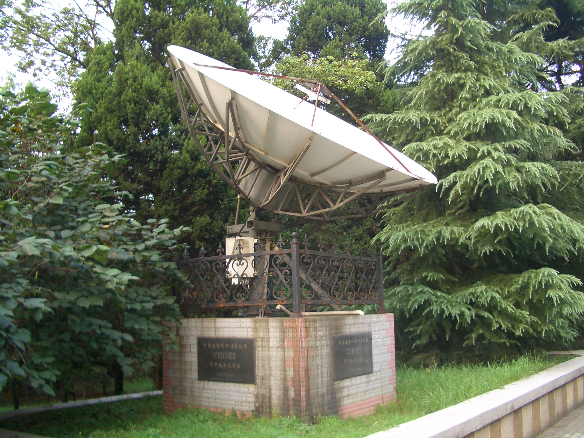 An old satellite dish on the HUST campus, commemorating the history of the CERNET network